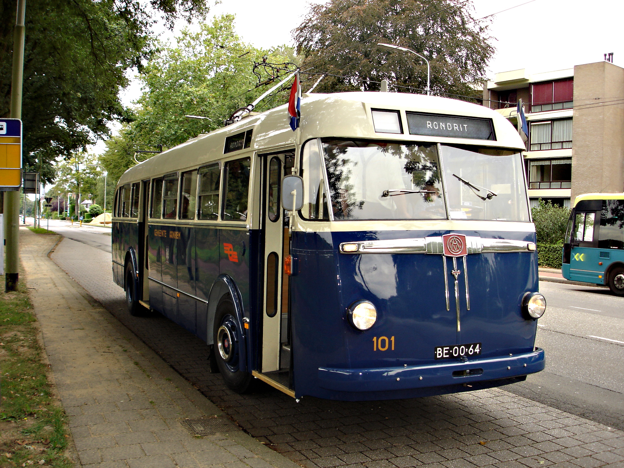 Arnhem trolleybus 101 is a Verheul-bodied BUT trolleybus built in 1949. It has been preserved in operating condition.